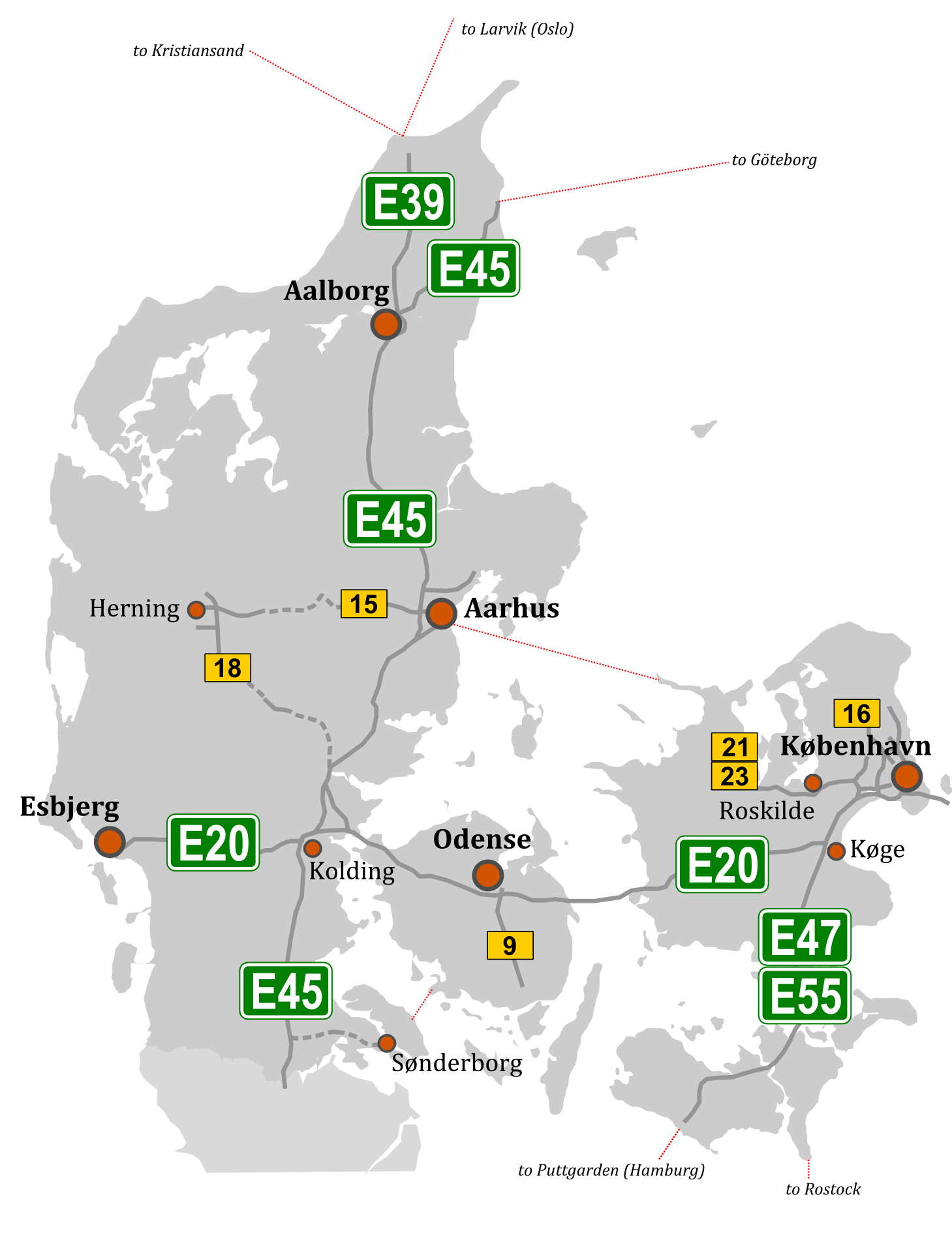 Map of the Danish motorways, with labels, cities and ferries.